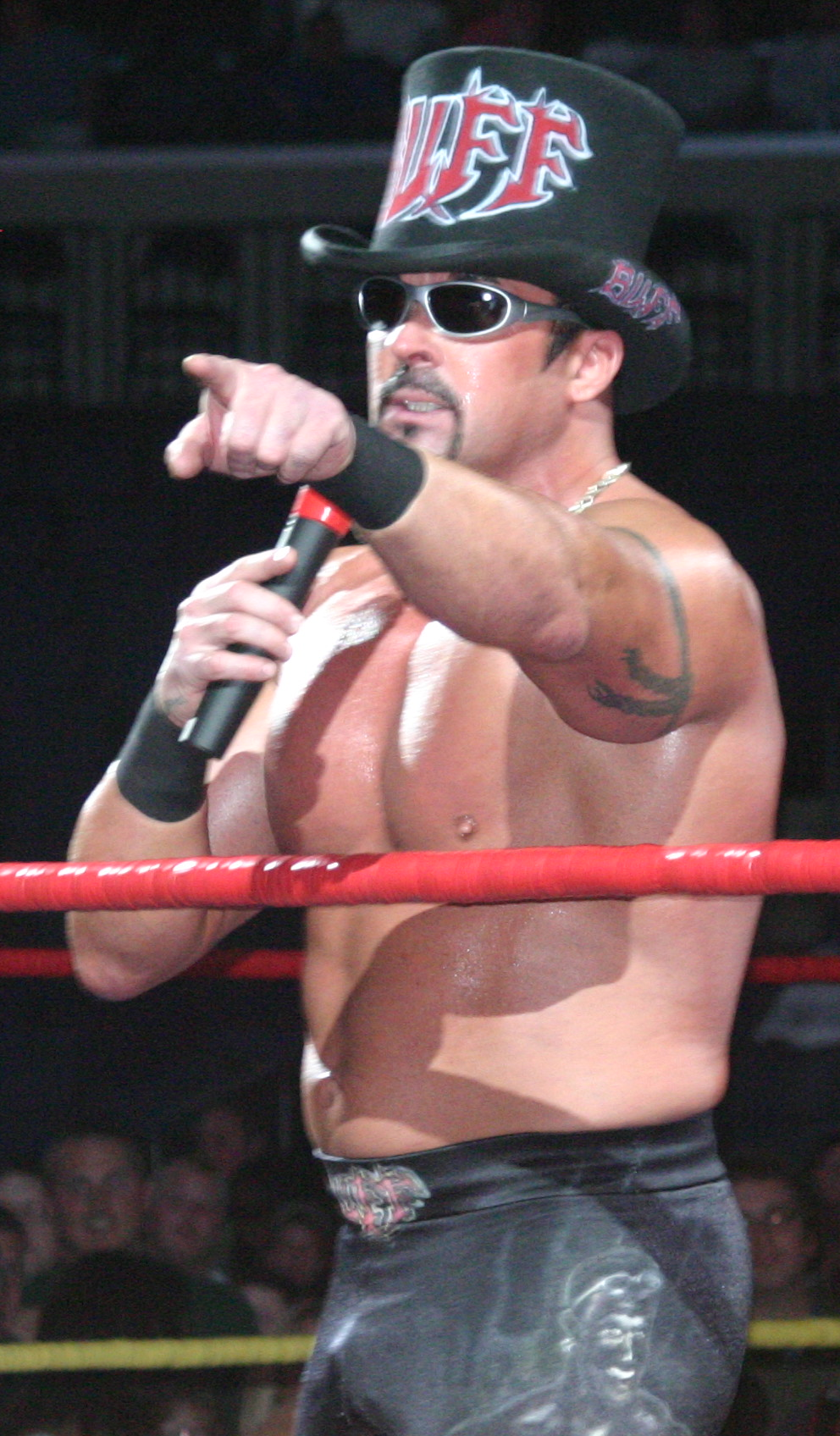 Professional wrestler Buff Bagwell in August 2006.